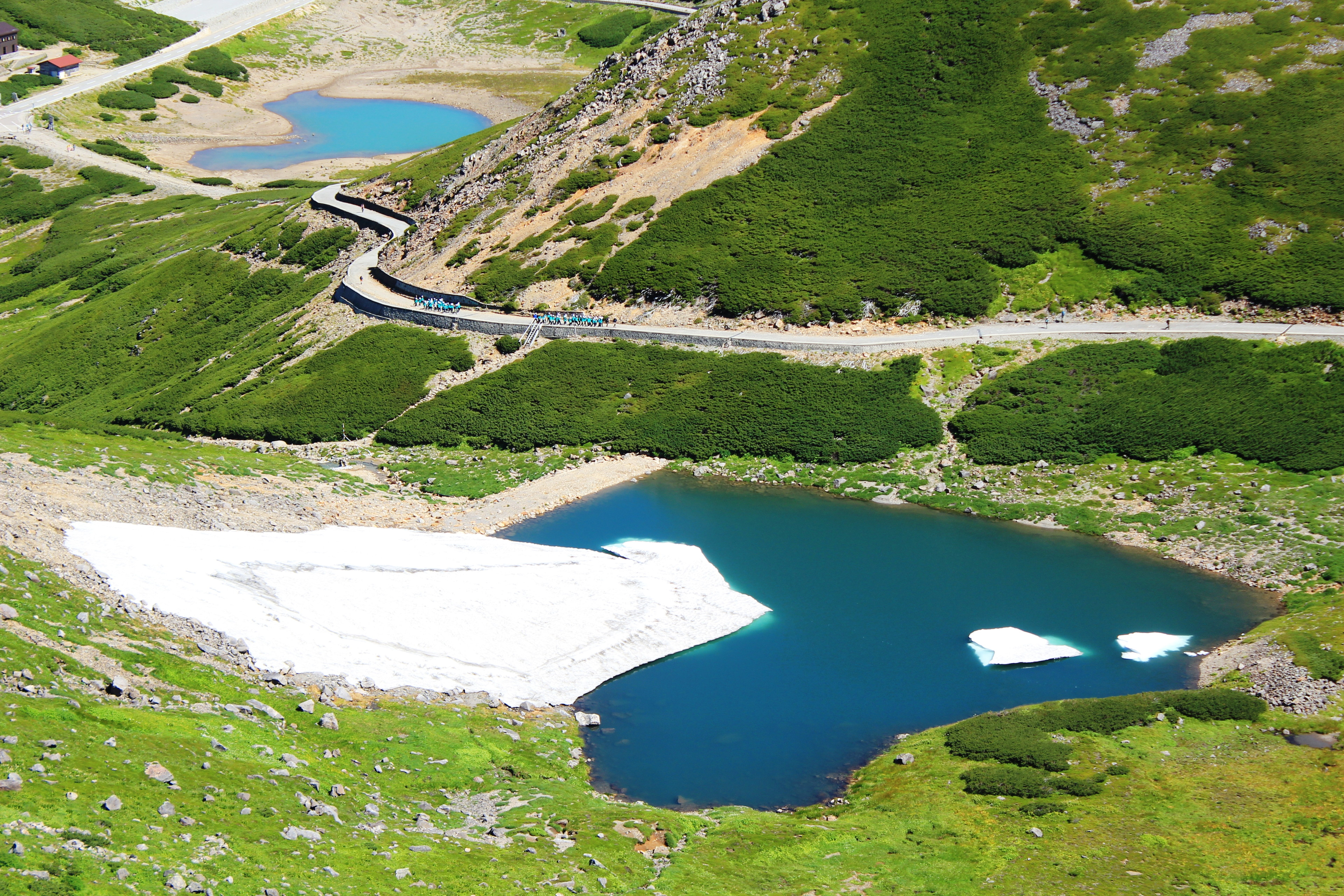 Kiezuga pond (Kiezugaike) and Tsuruga pond (Tsurugaike) of Mount Norikura in Takayama, Gifu pref., Japan.